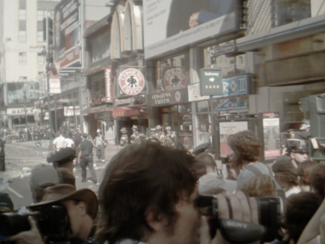 Fire and police officers congregate in the wake of a float burning down at the anti-RNC march in NYC on August 29, 2004. I took this picture and release it into the public domain.